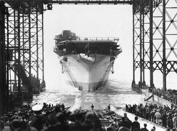 Crowds look on as Enterprise CV-6 clears the ways of Newport News Shipbuilding and Dry Dock Co., 3 October 1936.